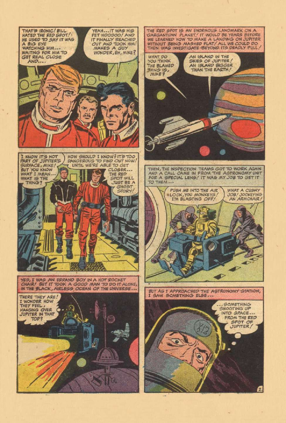 Comic page from Island in the Sky by Jack Kirby (pencils) and Al Williamson (inks), Race for the Moon #2, Sep 1958, Harvey Comics